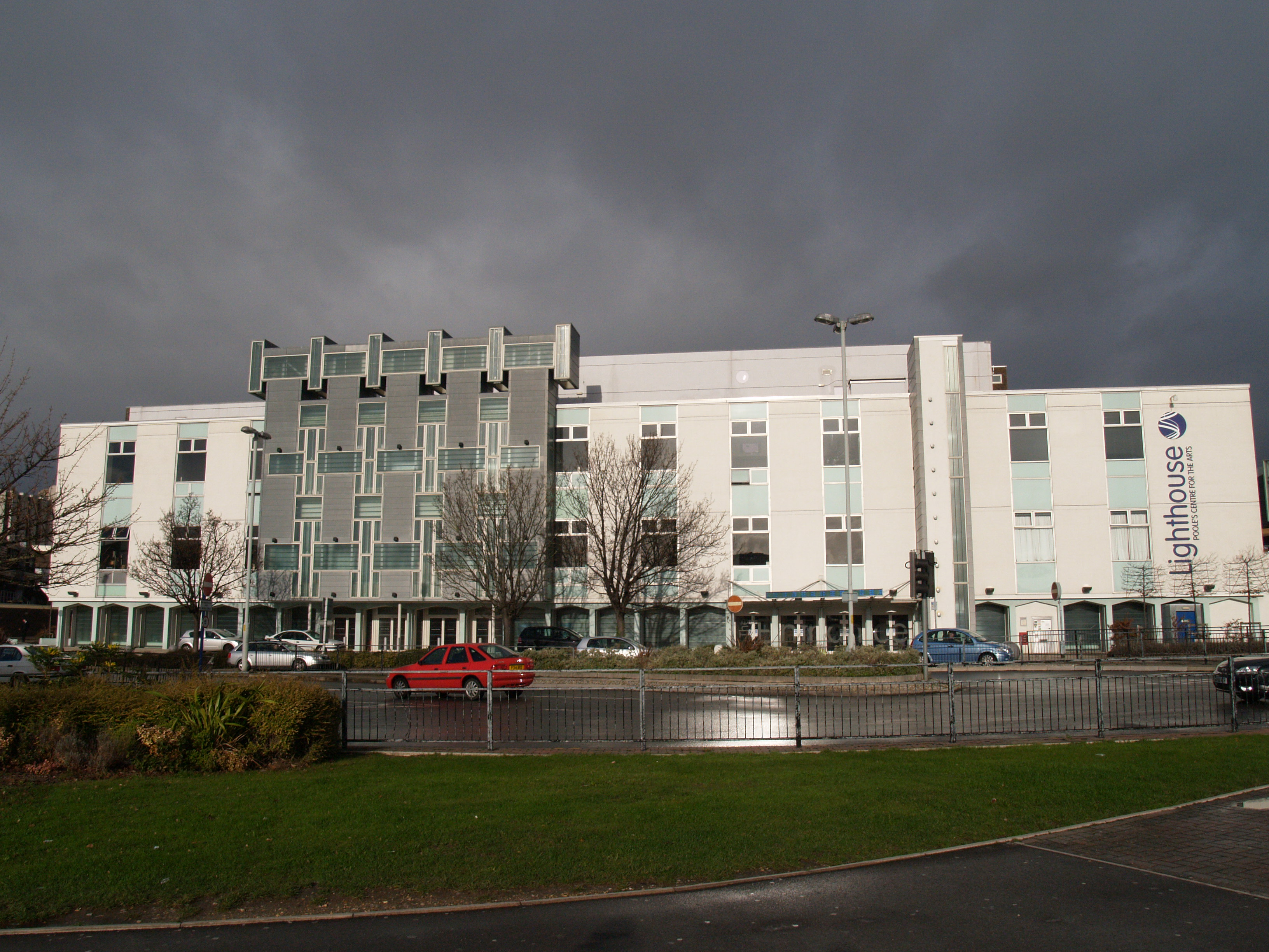 Own Work, Dec 2007. Poole.